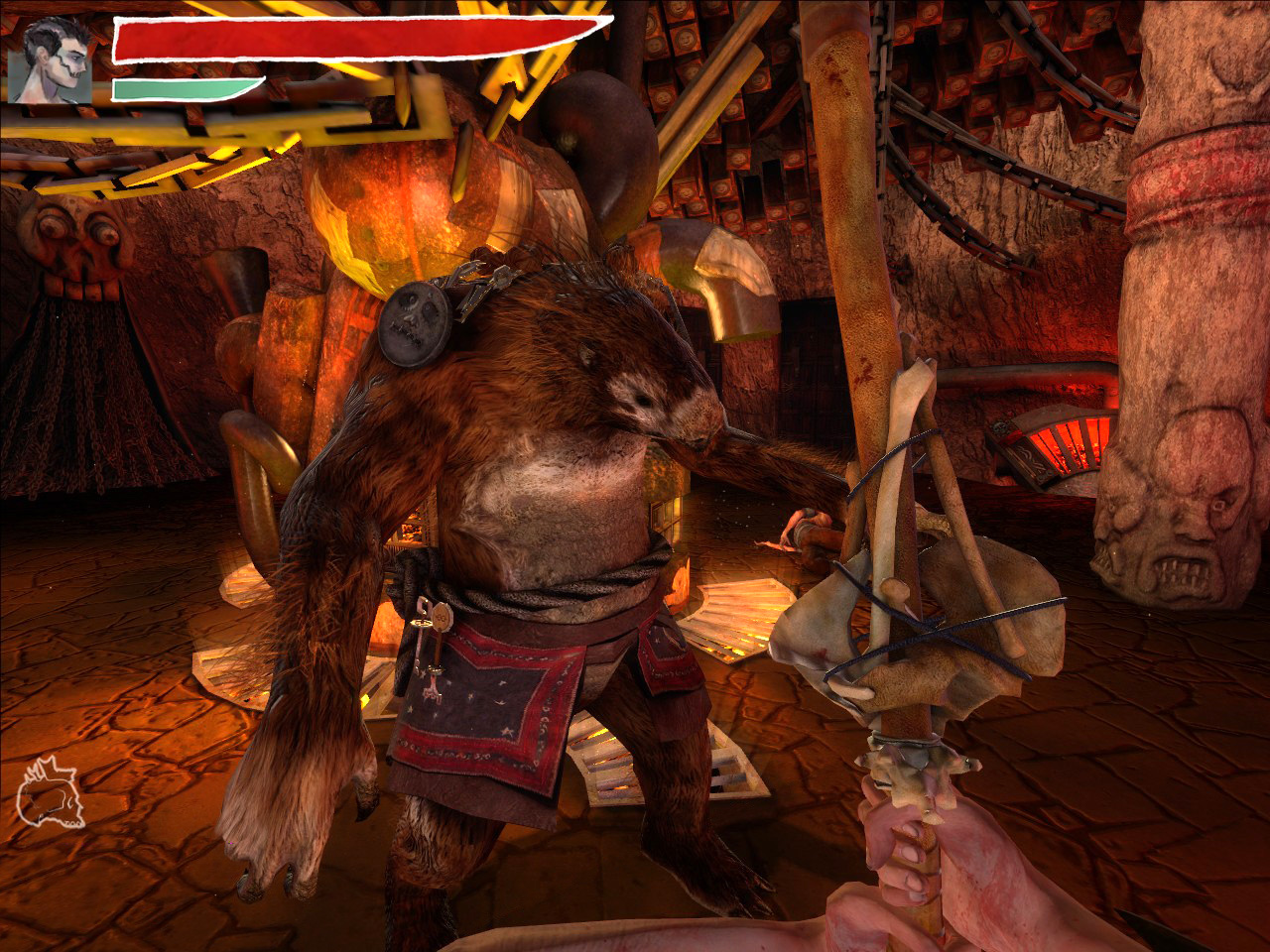 Zeno Clash screenshot. Released in 2009, the game was developed by ACE Team and is powered by Valve Software's Source engine.